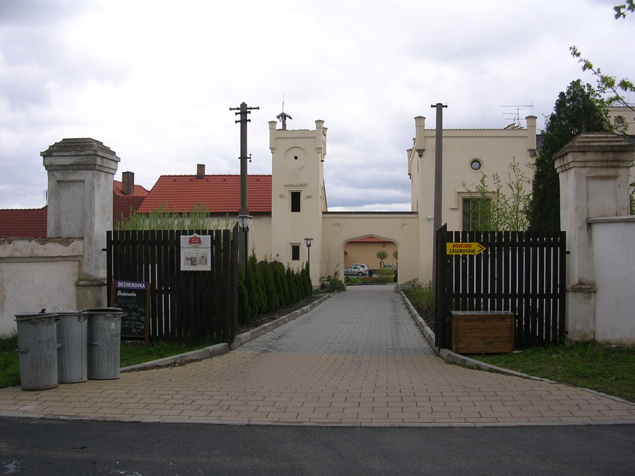 Trnová, Central Bohemian Region, the Czech Republic. The castle.